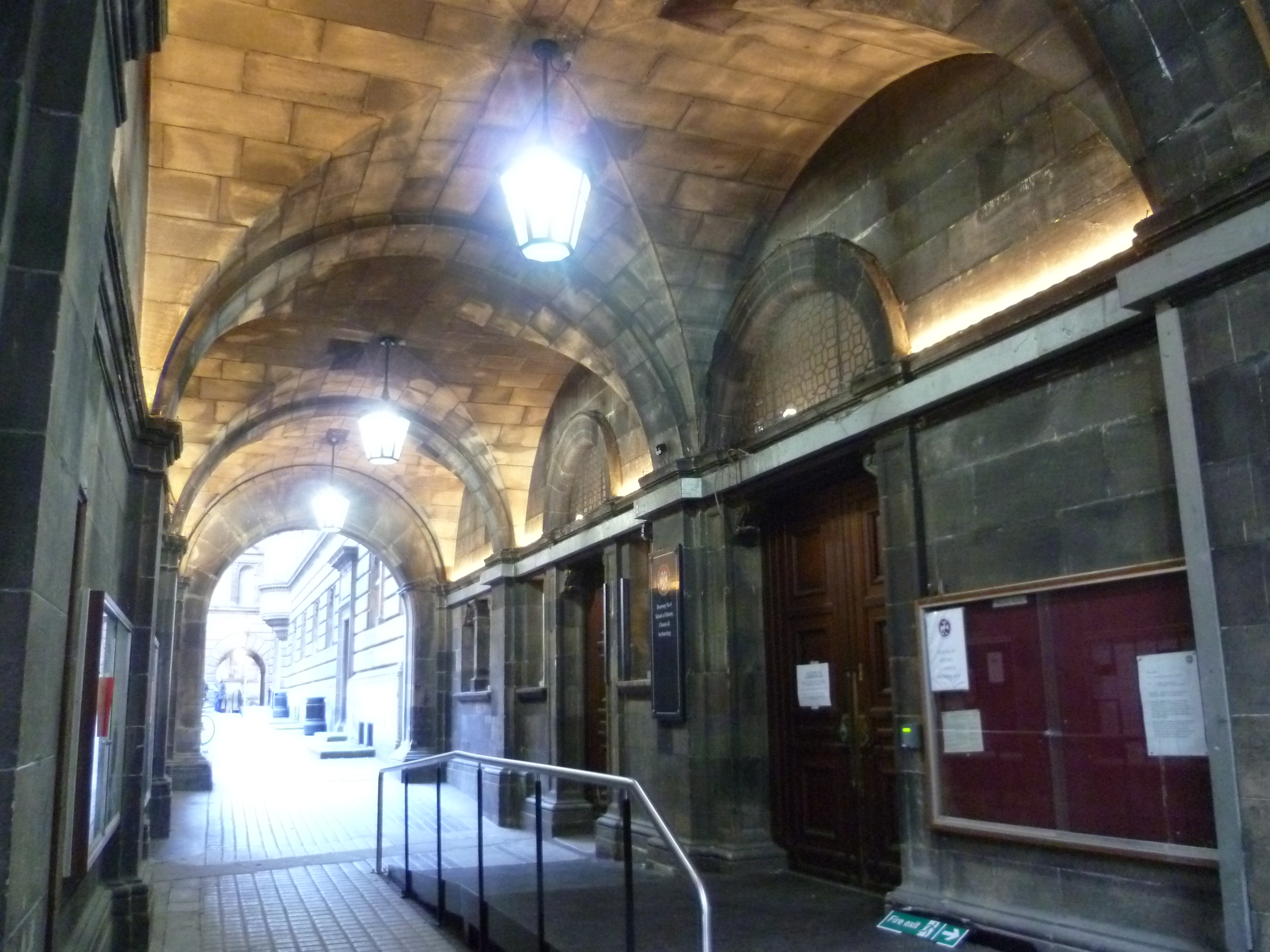 Arcade off the New Quad, Edinburgh Medical School, Teviot Place